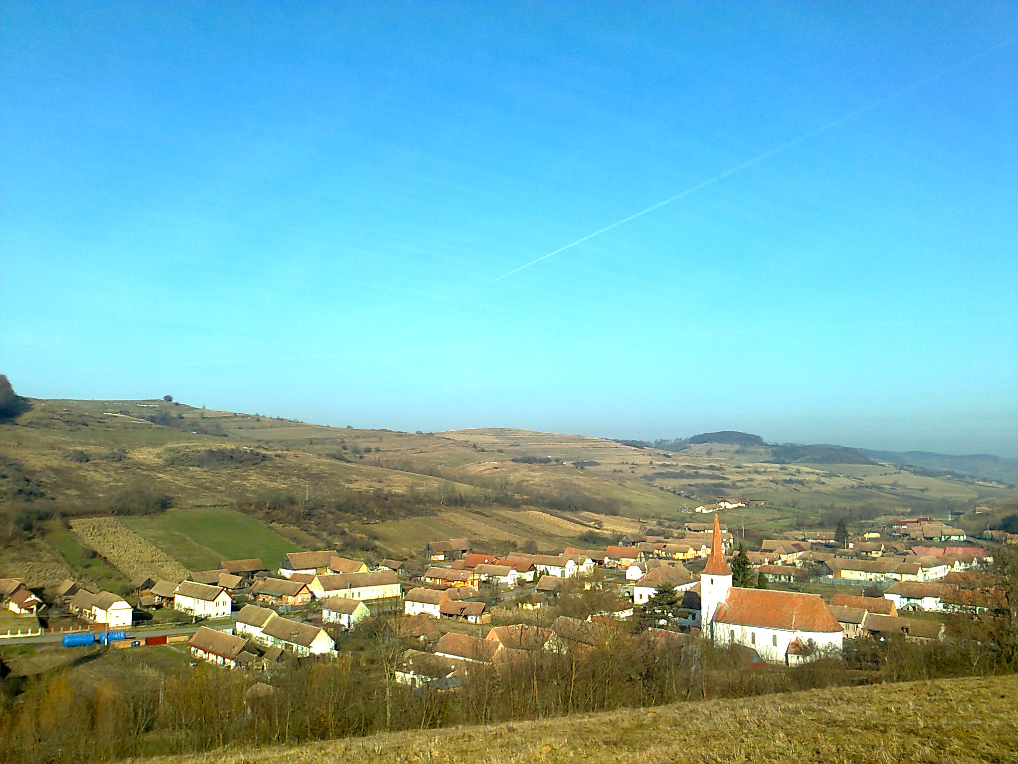 View of village Domáld (today part of Viisoara) from Transylvania